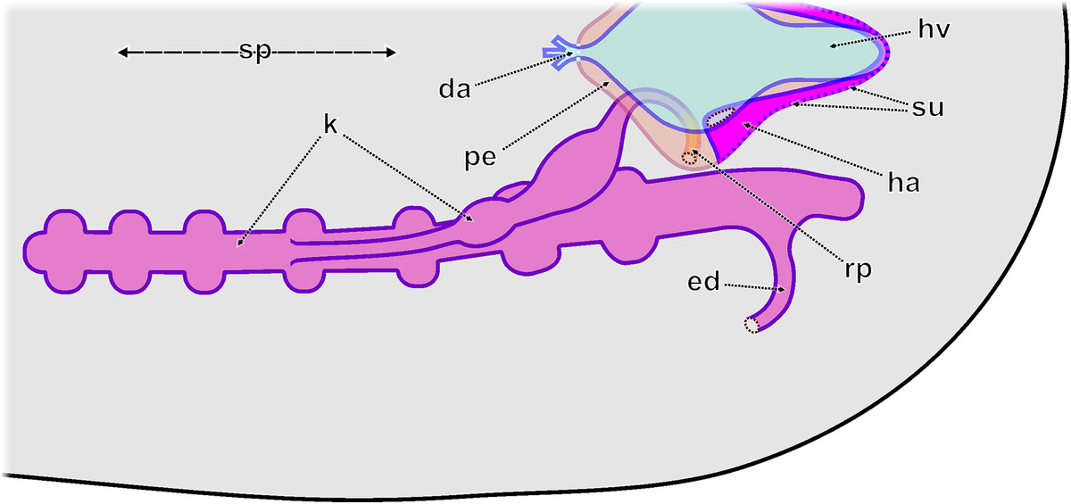 Original figure caption: Schematic representation of an adult (fully developed) metanephridial system plus the pericard/heart complex of a polyplacophoran similar to that of a member of the genus Lepidochitona. Dorsal view of the left side. da, dorsal aorta; ed, efferent nephroduct; ha, heart atrium; hv, heart ventricle; k, kidney; pe, pericardium; rp, renopericardial duct; sp, sagittal plane; su, sites of ultrafiltration.